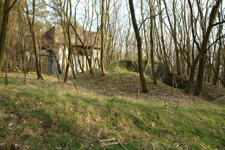 Tower 1